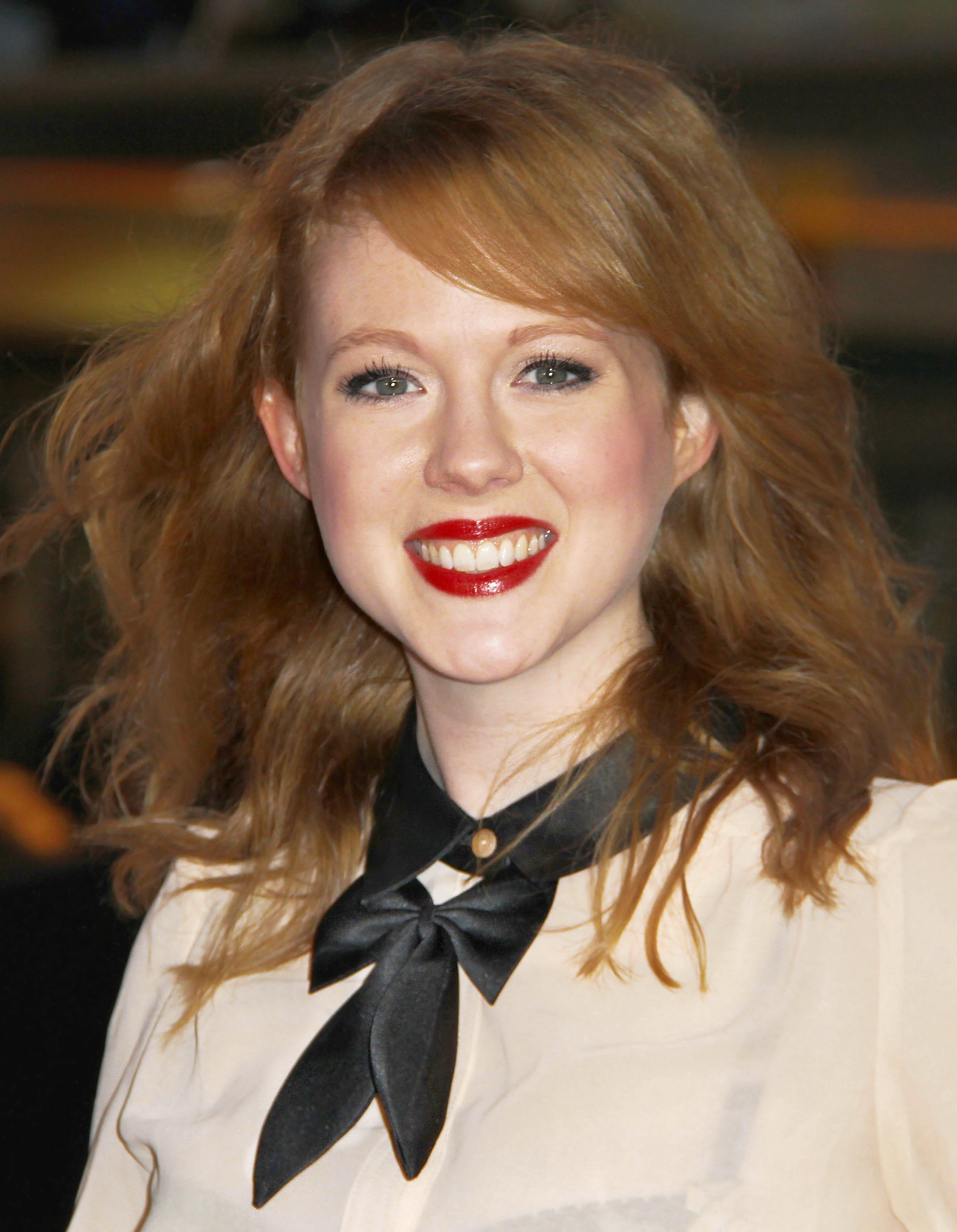 Actress Zoe Boyle at the UK film premiere of The Adventures of Tintin: The Secret of the Unicorn, Odeon West End Cinema, London, UK on 23 October 2011.